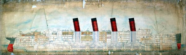 A cutaway view of the Mauretania.